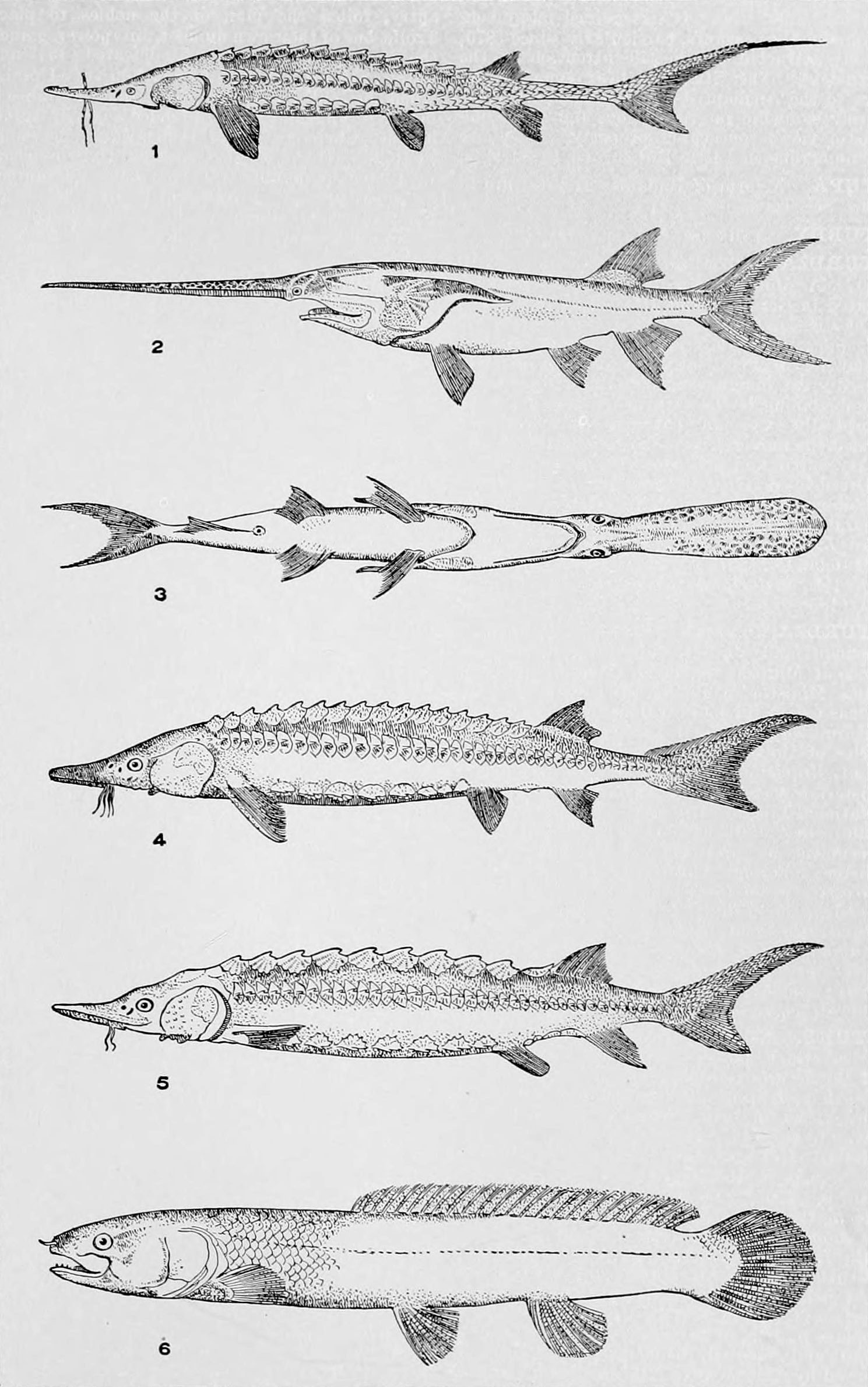 Chart showing views of five fish from sturgeons, paddle-fish and bowfin.